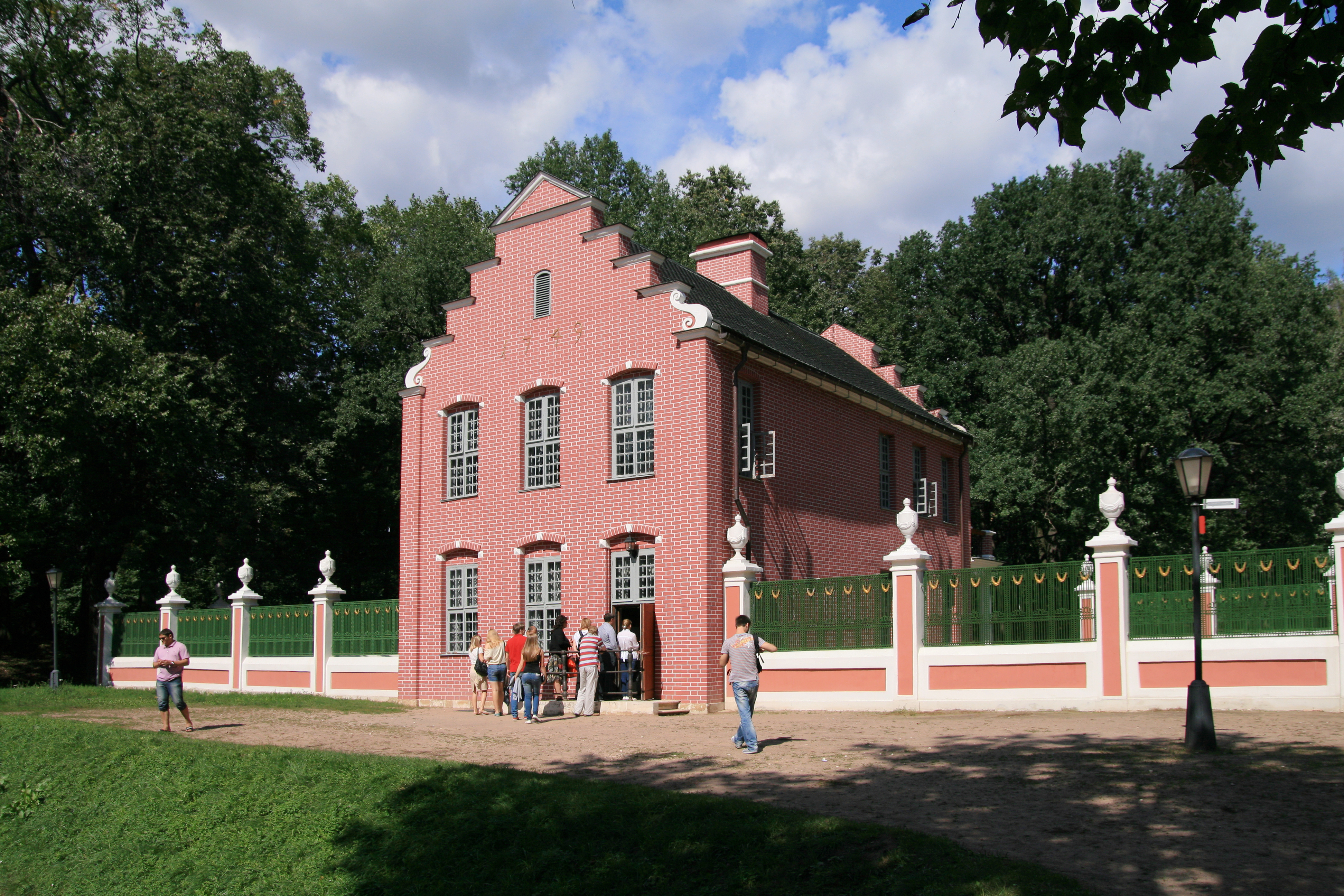 Dutch House, in Kuskovo Estate, 1749, Moscow